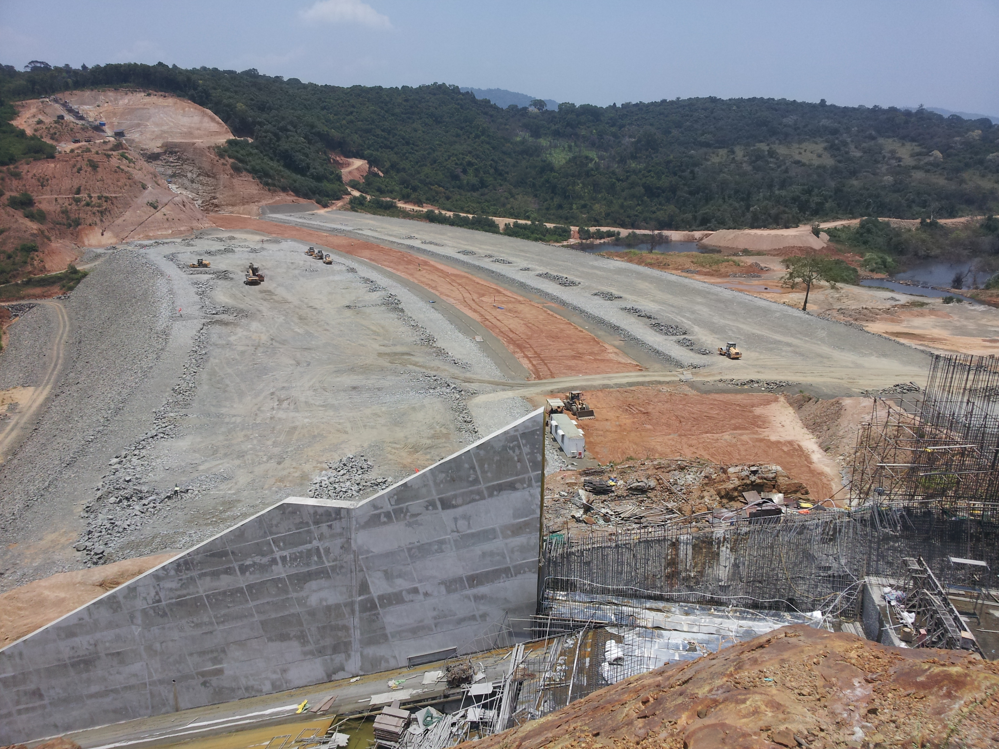 Base of Kaluganga Dam at construction site 2017